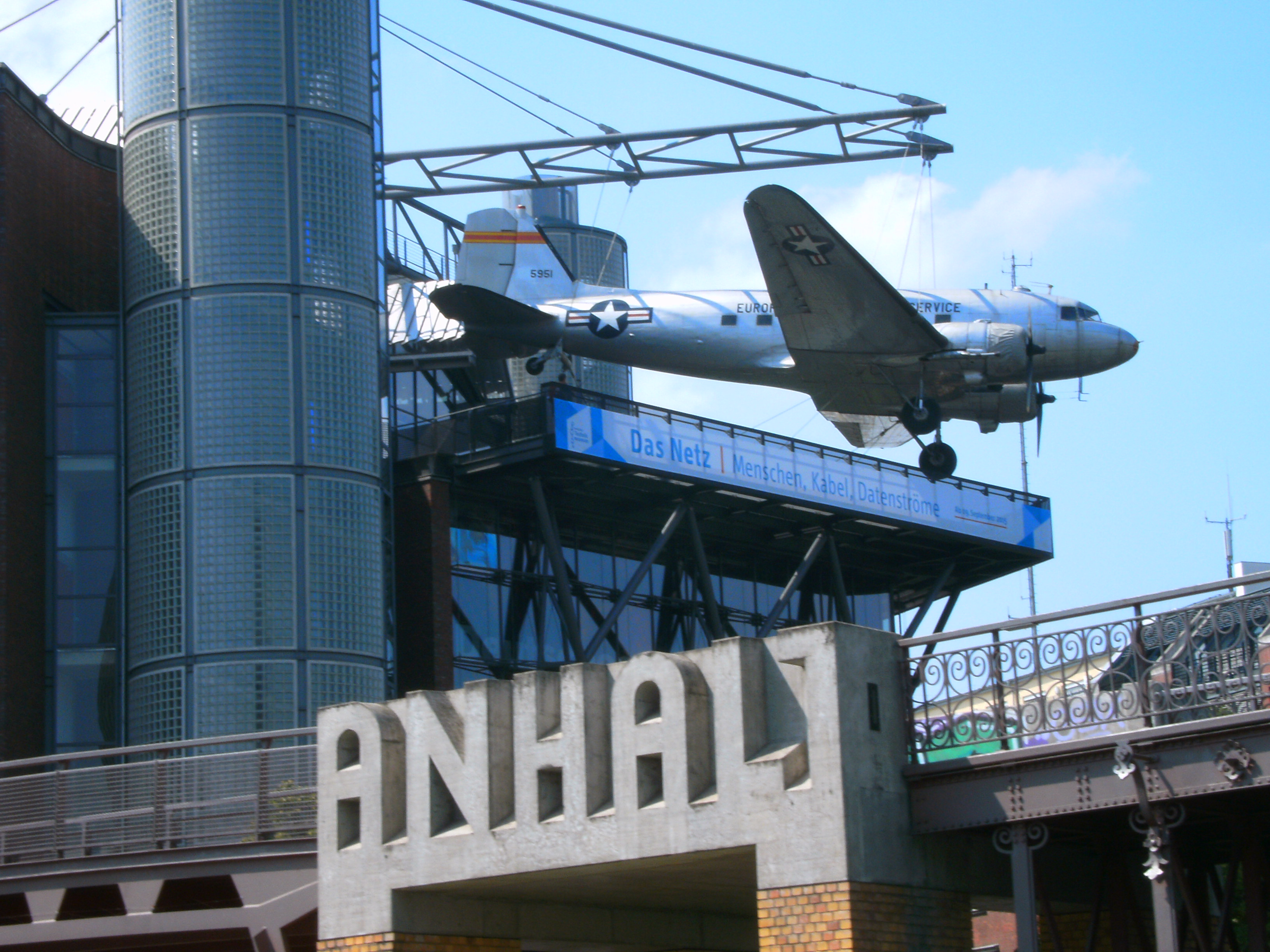 German Museum of Technology Berlin (Deutsches Technikmuseum Berlin): C-47 Skytrain. Seen from the canal Landwehrkanal.